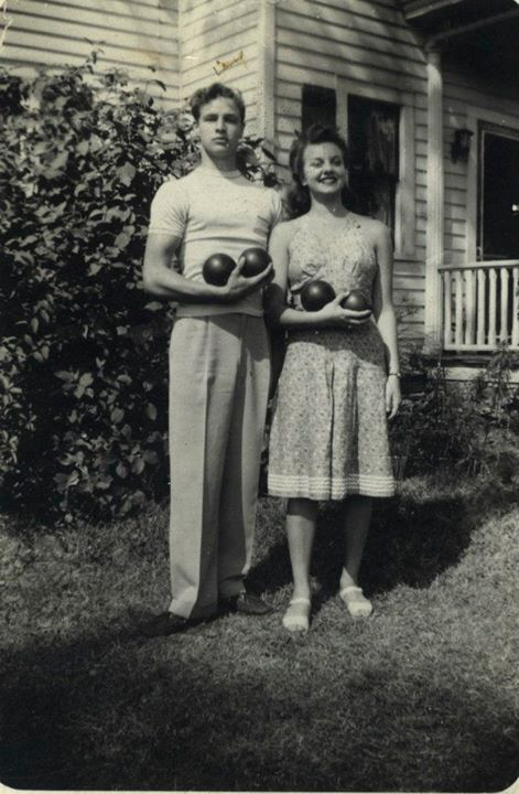 Picture of Carmelita Pope and Marlon Brando, photographer unknown, republished by permission of Carmelita Pope